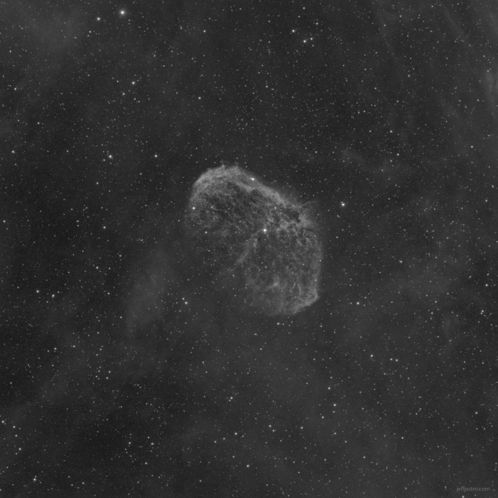 NGC 6888 (Crescent Nebula) and surrounding nebulosity in Hα (H-alpha) (3nm) imaged using amateur telescope.